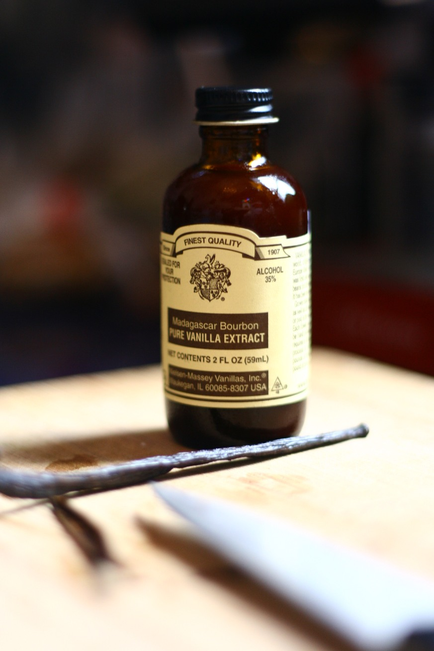 Nielsen-Massey Vanilla Extract